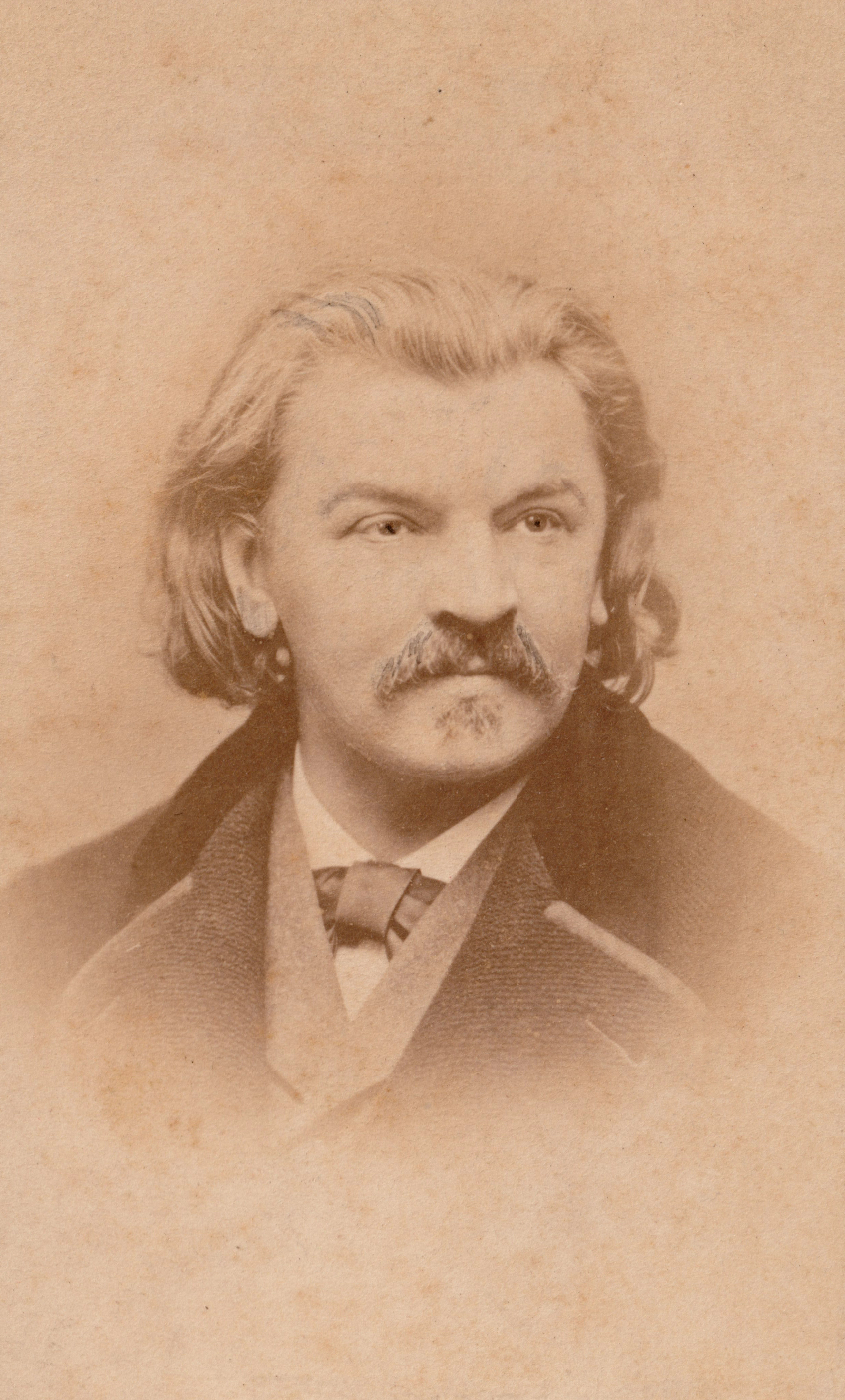 Ludwig Meinardus [named in manuscript on reverse of print]